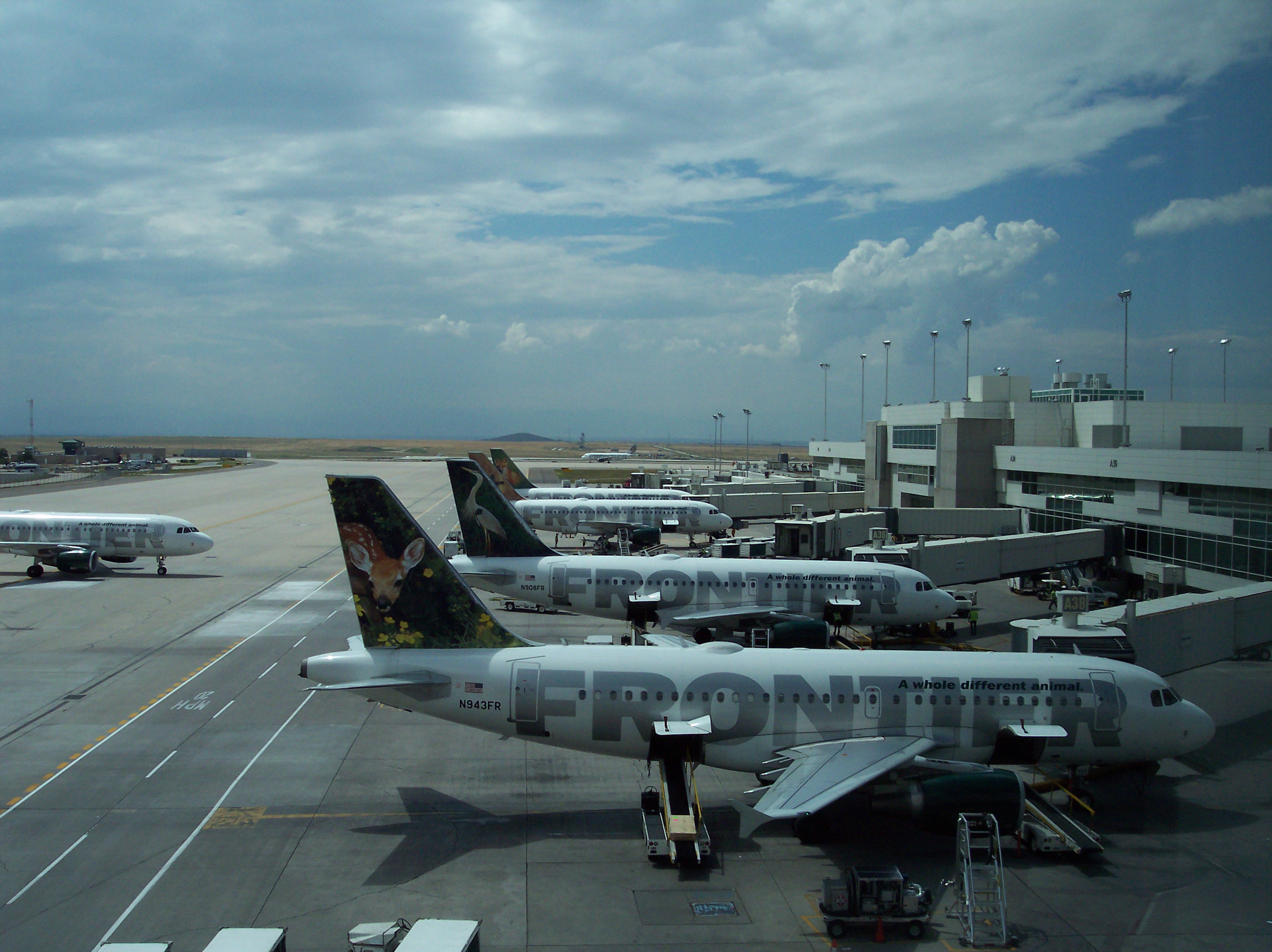 Row of Frontier Airplanes at Denver International Airport